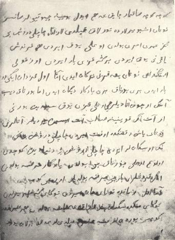 An example of the Bashkir alphabet based on the Arabic script. Genealogy of the Bashkir genus Yurmaty. Second half of XVI centure.